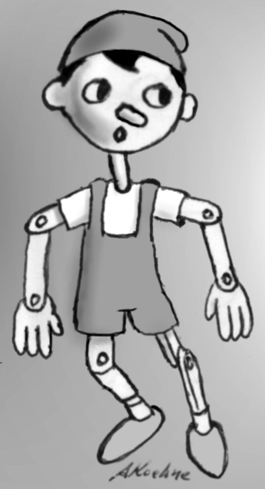 Pinocchio by André Koehne